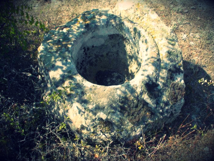 Kovil 2 BG